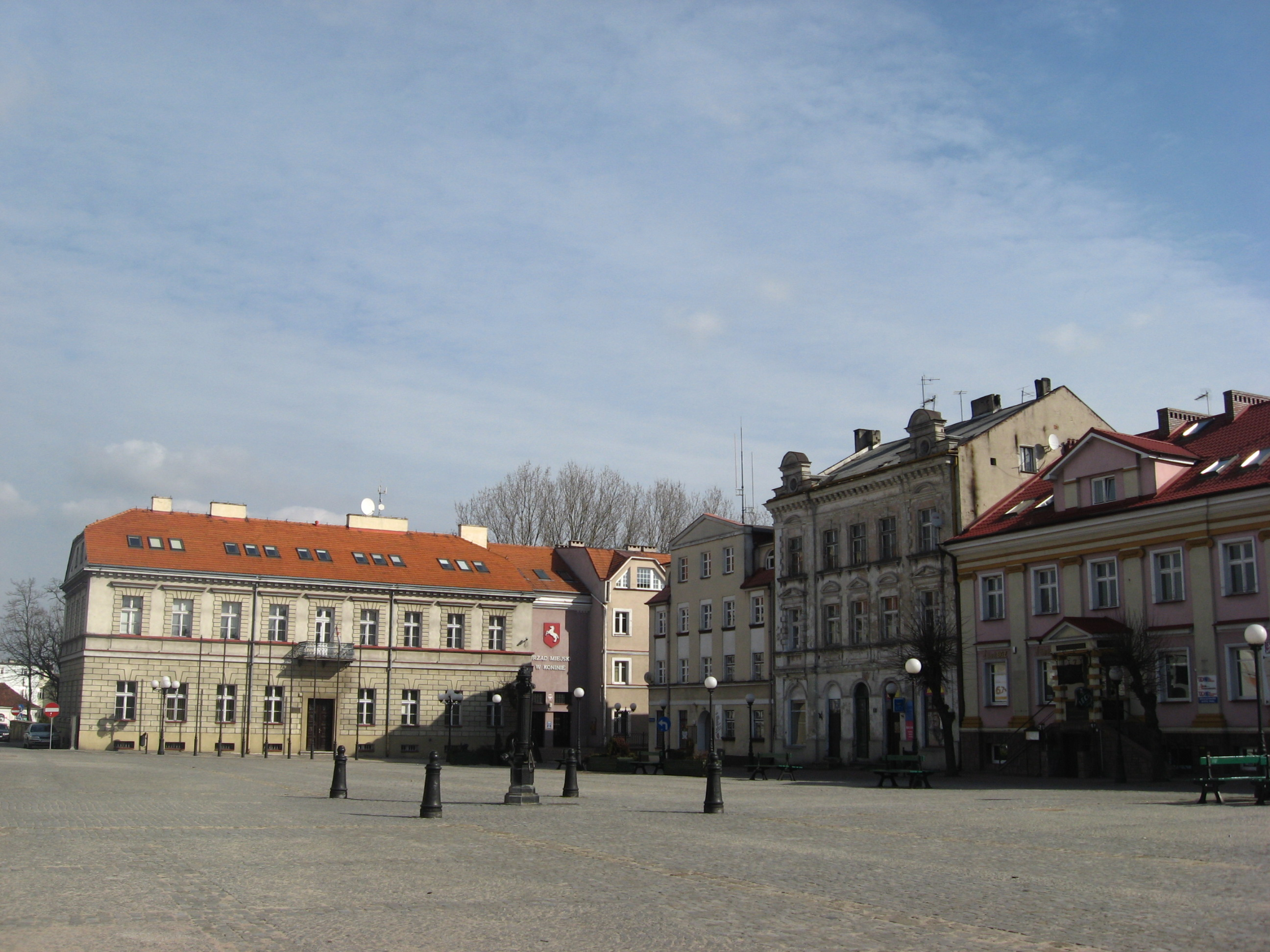 Konin - The Liberty Square